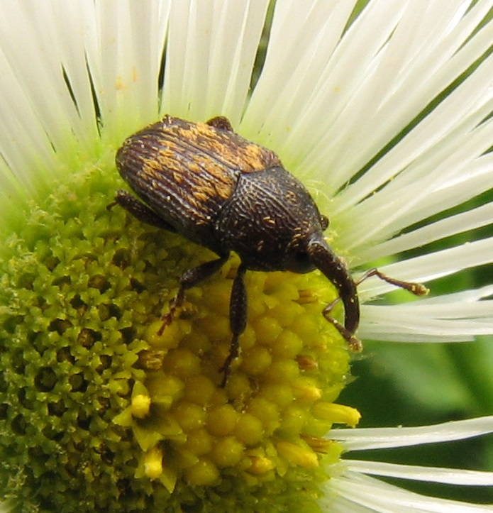 Flower weevil, Glyptobaris lecontei. Willow Grove, Montgomery County, Pennsylvania, USA.